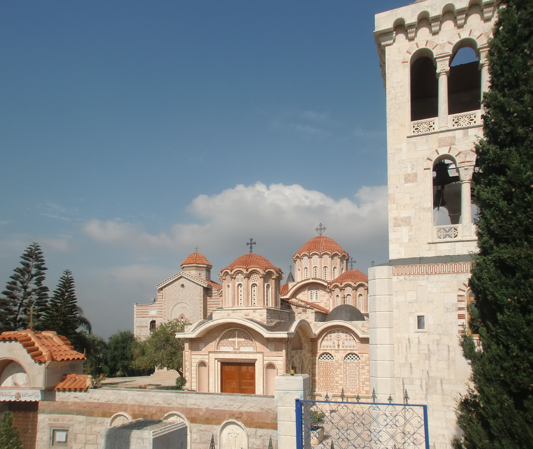 St Mary monastery in Bdebba Koura, Lebanon